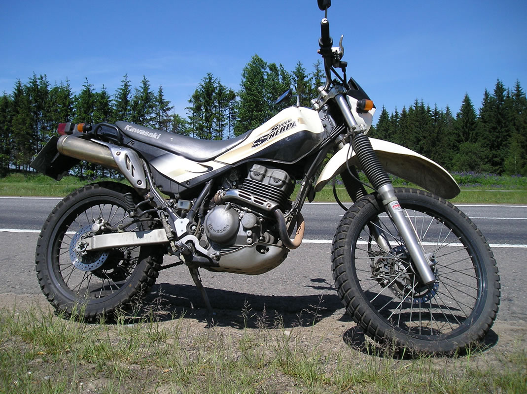 Dual-purpose motorcycle Kawasaki Super Sherpa KL250